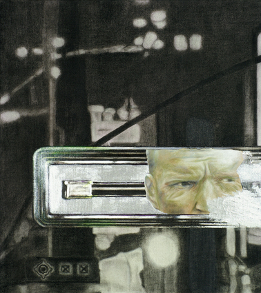 Some kind of a autoportrait of Jean Lecoultre